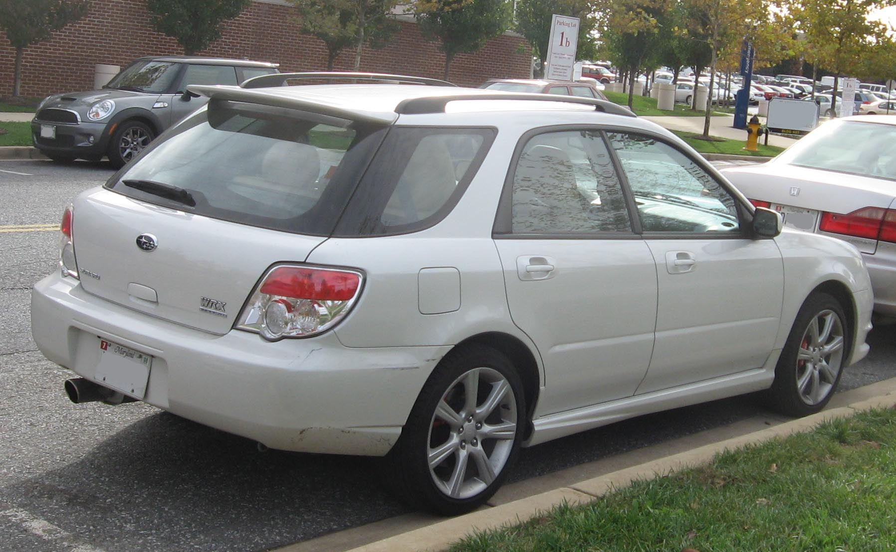 2006-2007 Subaru WRX photographed in College Park, Maryland, USA.